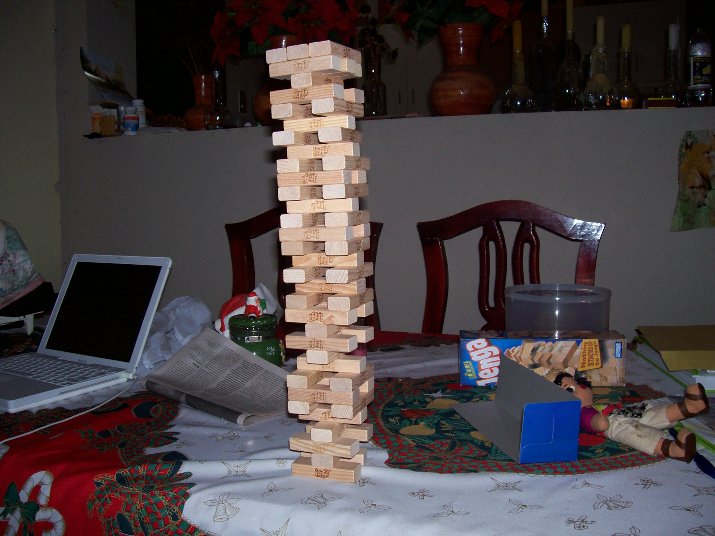 Jenga solution ...